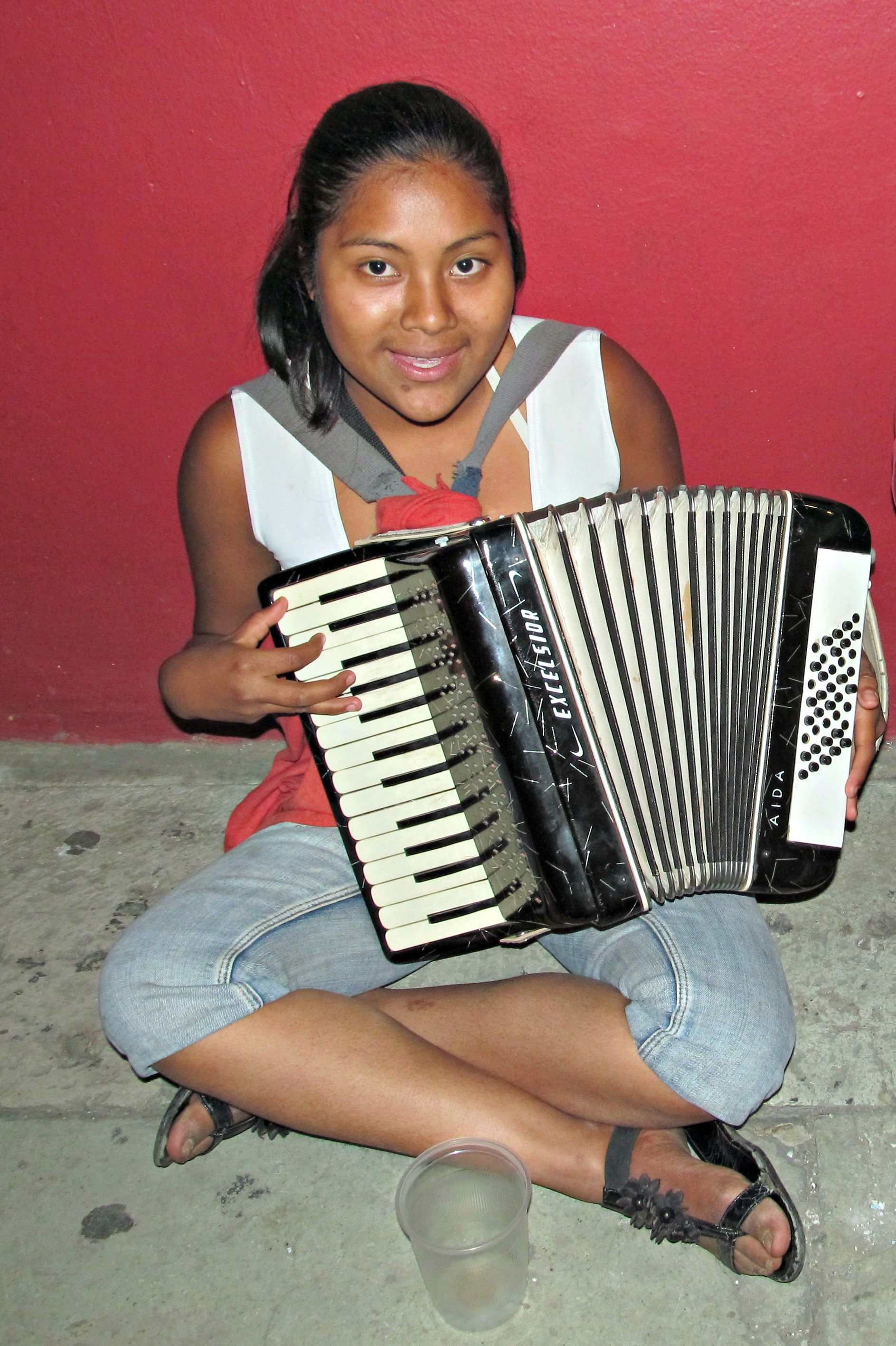 Rosalba, the accordionist girl of downtown Oaxaca